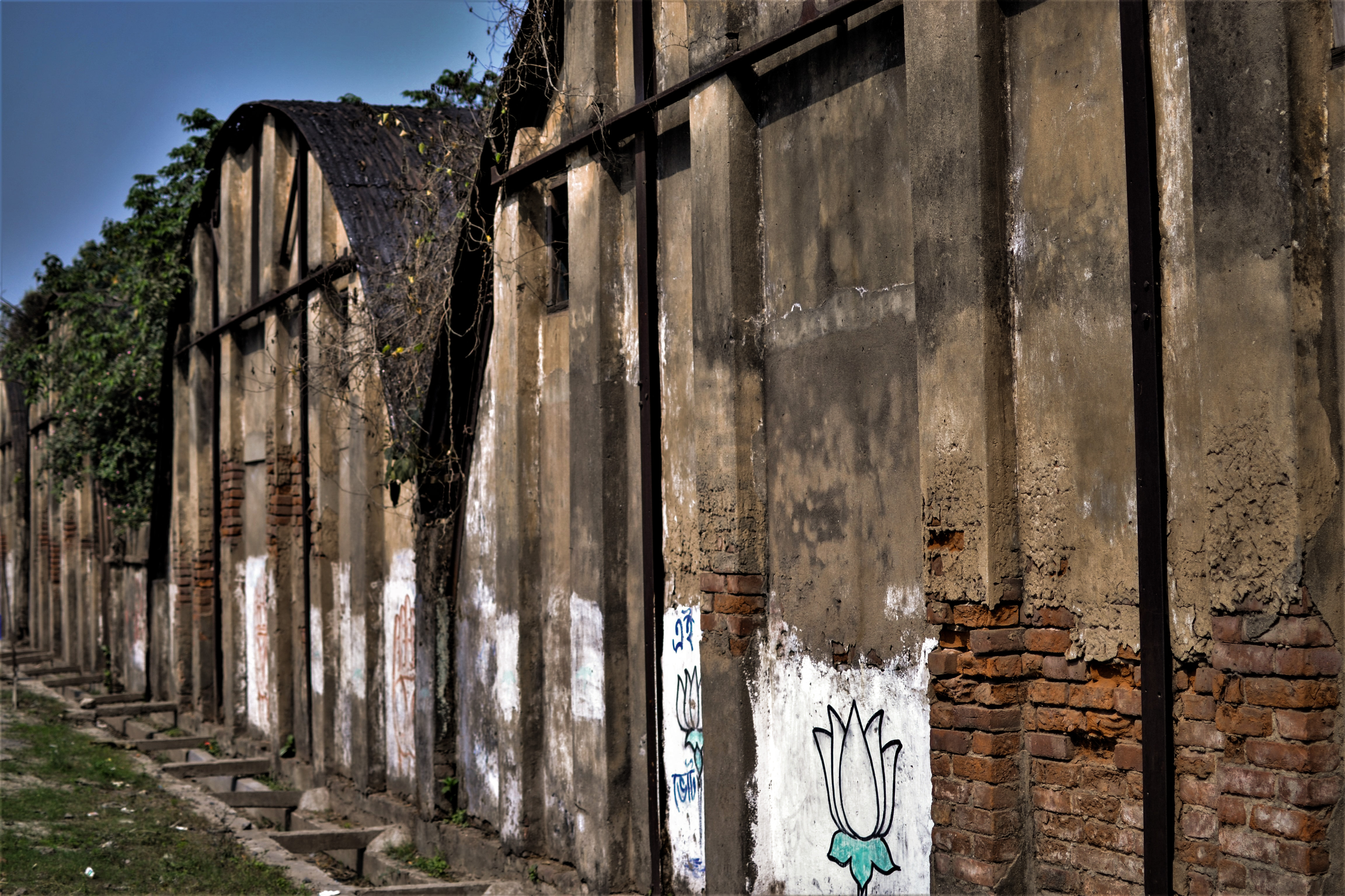 Nissen huts in Tribeni built during the WWII in Tribeni, were later used as rehabilitation camps post independence.